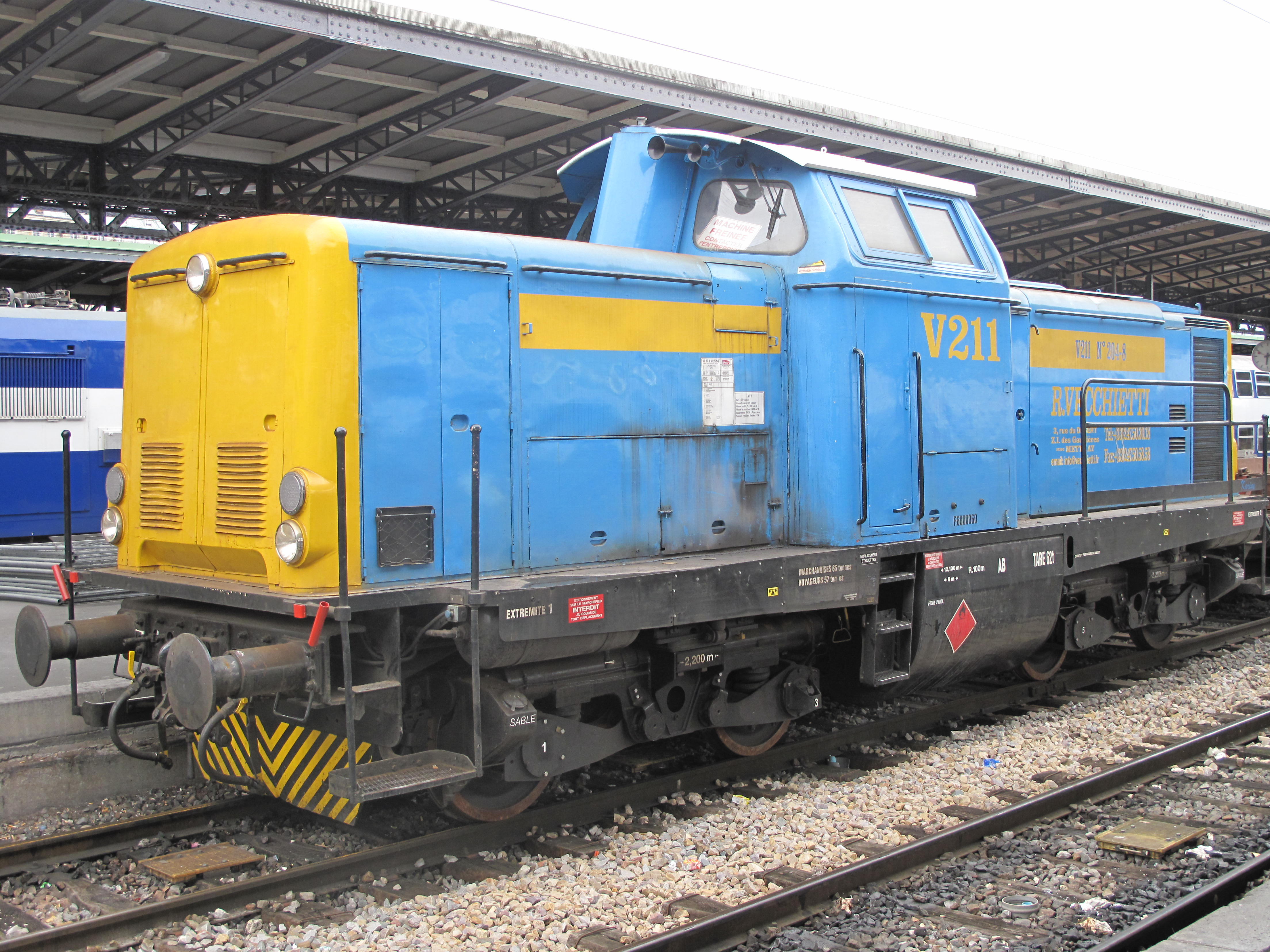 Works locomotive V211 of the French company Vecchietti (subsidiary of the Colas group) during works in gare de Paris-Est, France.